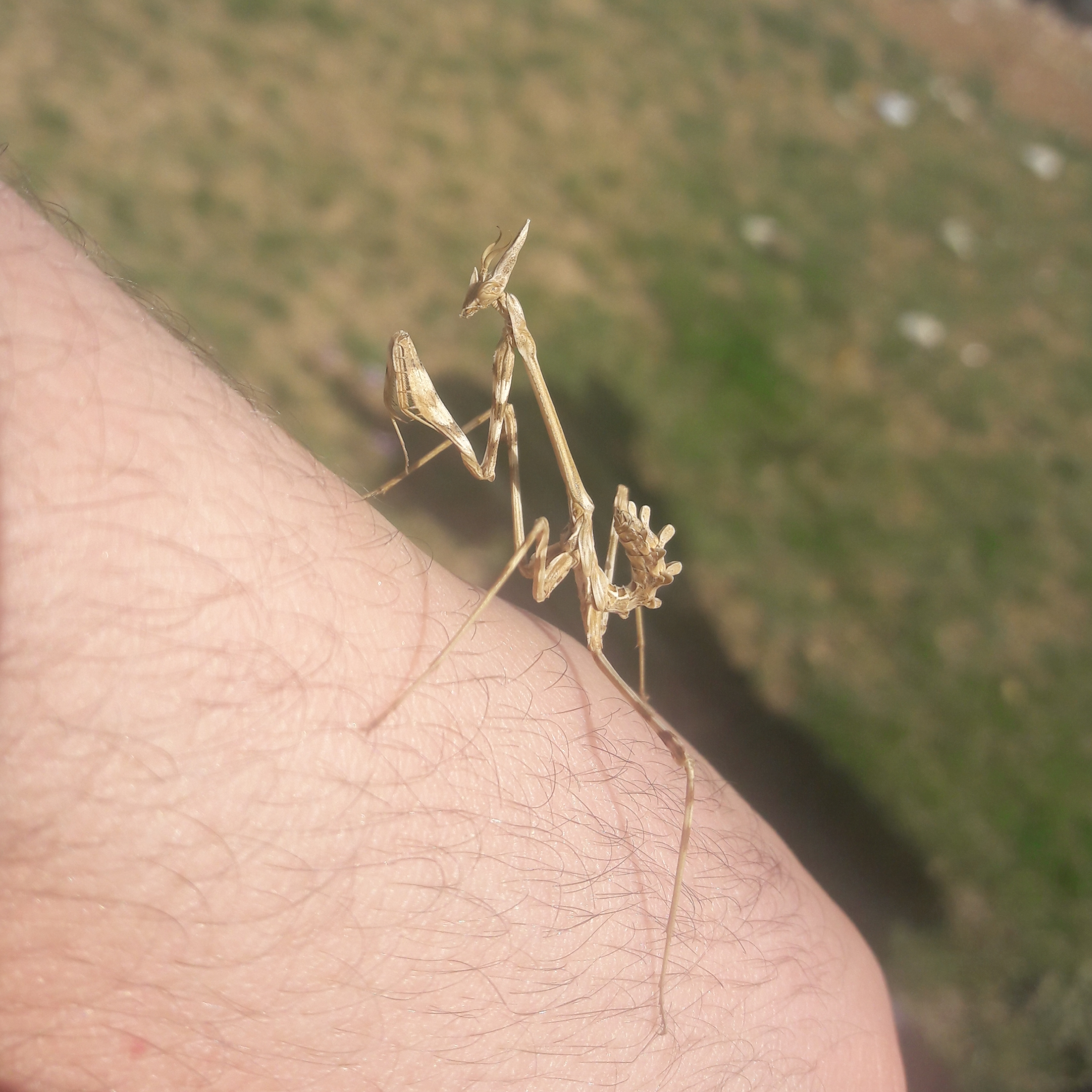 Empusa pennata, west Iran